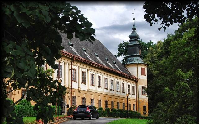 Bludov, Šumperk District, Czechia. Chateau.